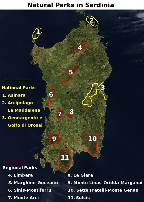 Map of National and Regional Parks in Sardinia (Italy)